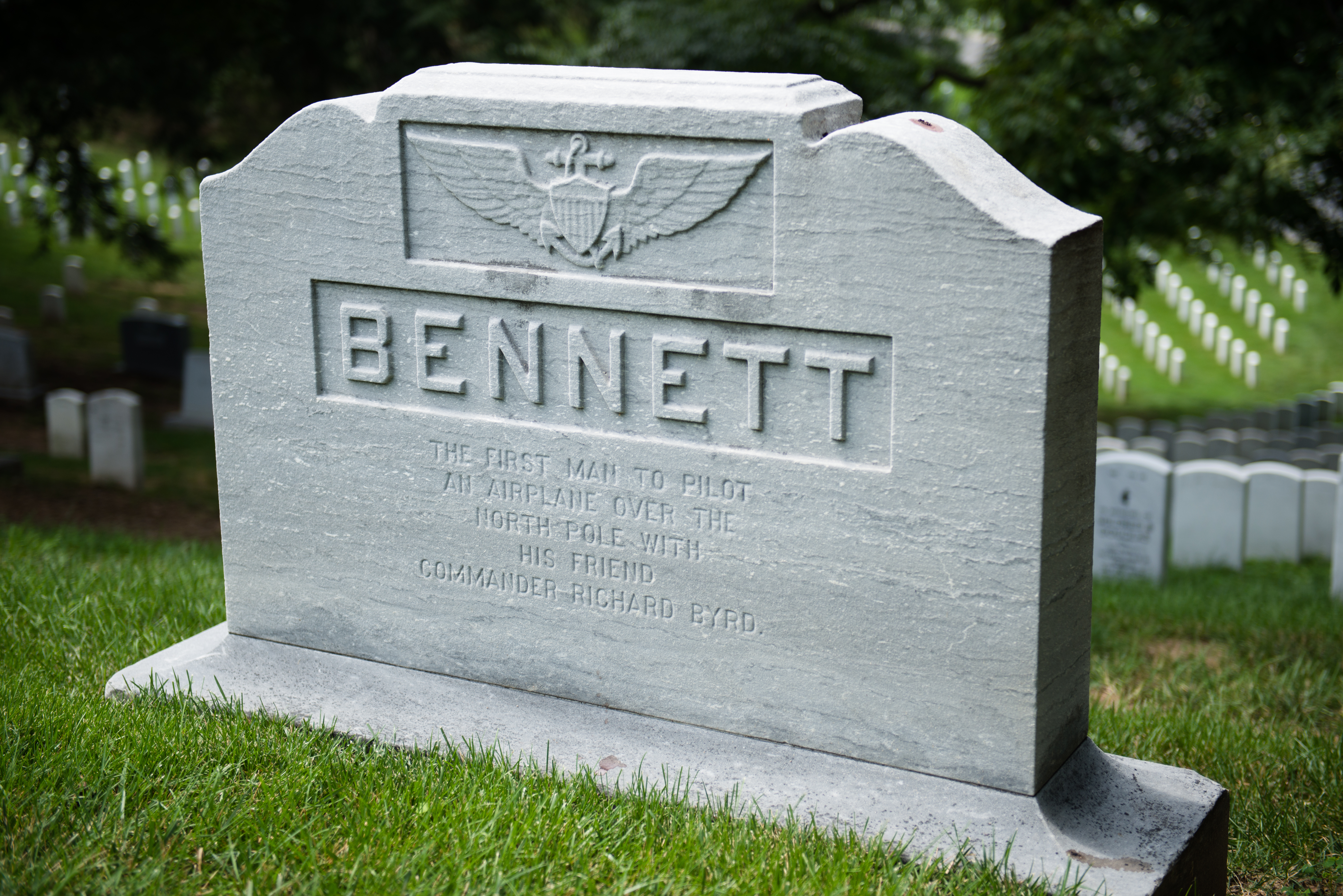 Floyd Bennett, Oct. 25, 1890-April 25, 1925, was an American aviator who piloted Richard E. Byrd on his attempt to reach the North Pole in 1926. He is buried in Arlington National Cemetery’s Section 3, Grave 1852-B. (U.S. Army photo by Rachel Larue/released)